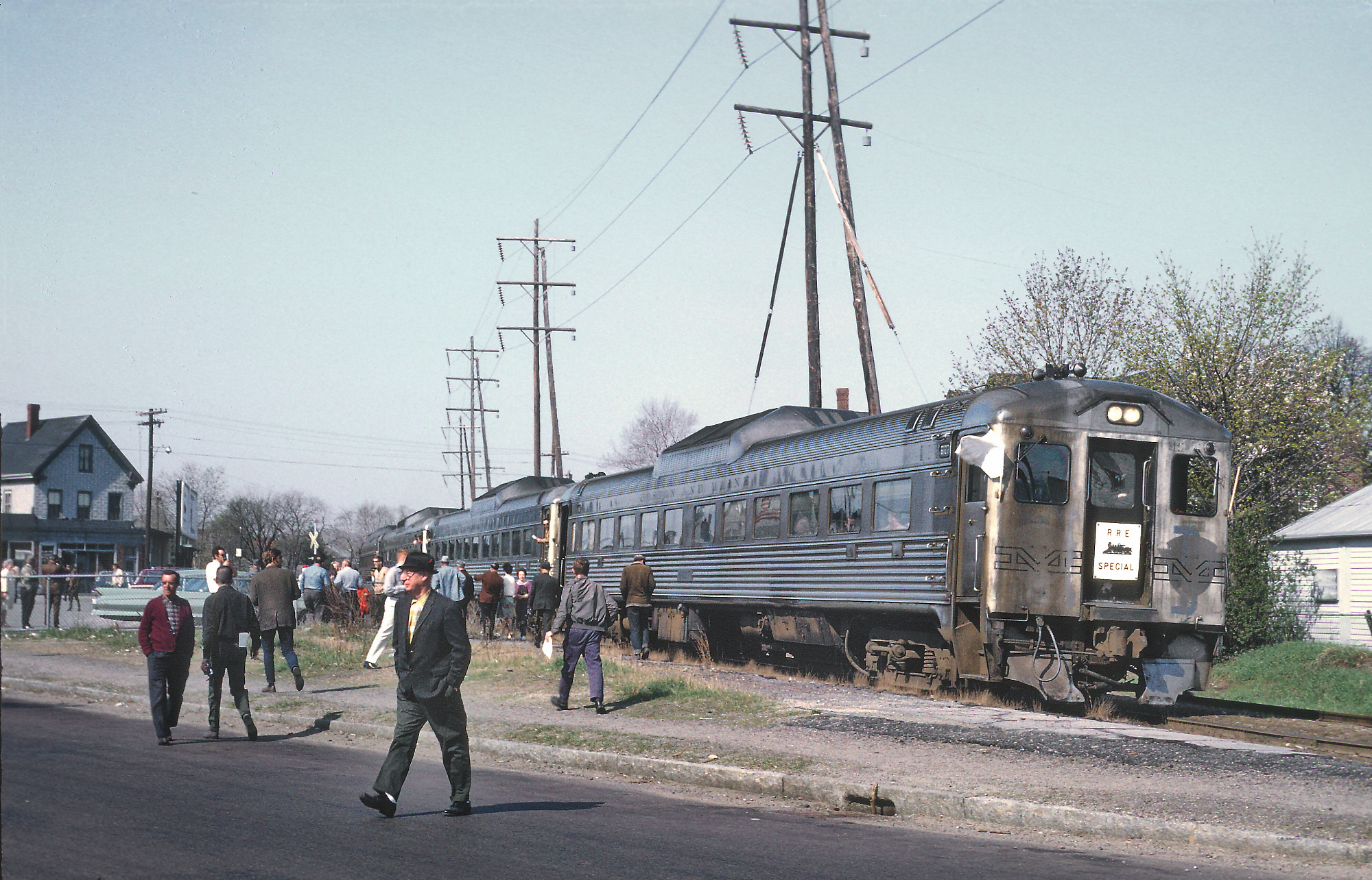 Boston and Maine Railroad RDCs running at Mass Bay Railroad Enthusiasts fantrip at Linden, Massachusetts on the Saugus Branch - a line that had not seen passenger service since 1959 - in April 1969.